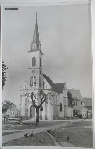 Postcard from Mraclin, Croatia, early 20th century.